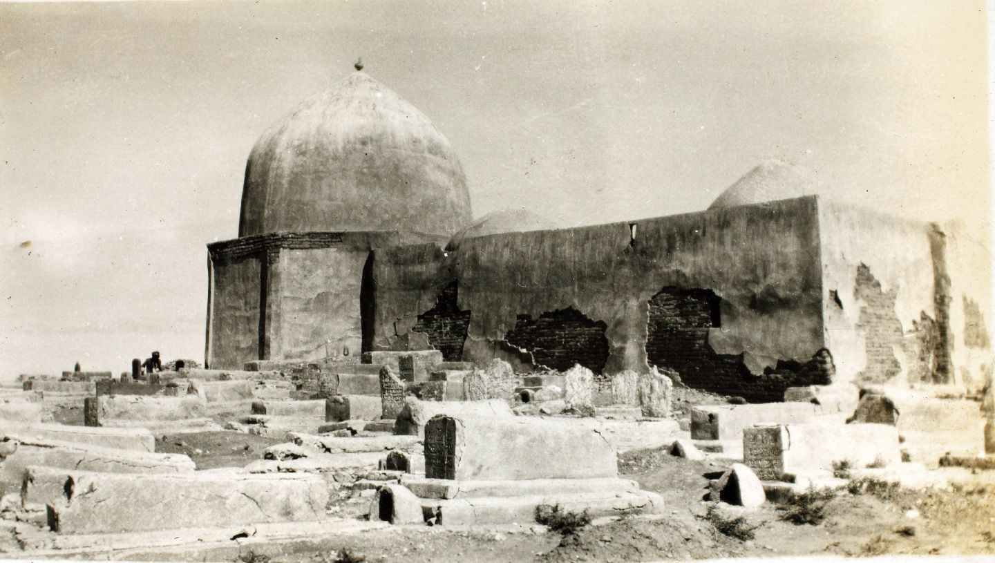 Tsin Mosque.